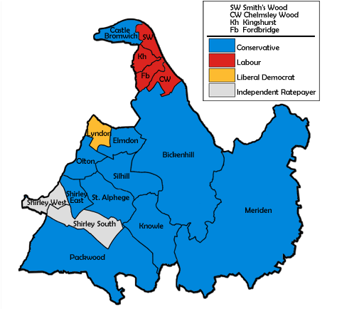 Ward map of Solihull Council with political colouring for the 1992 election.